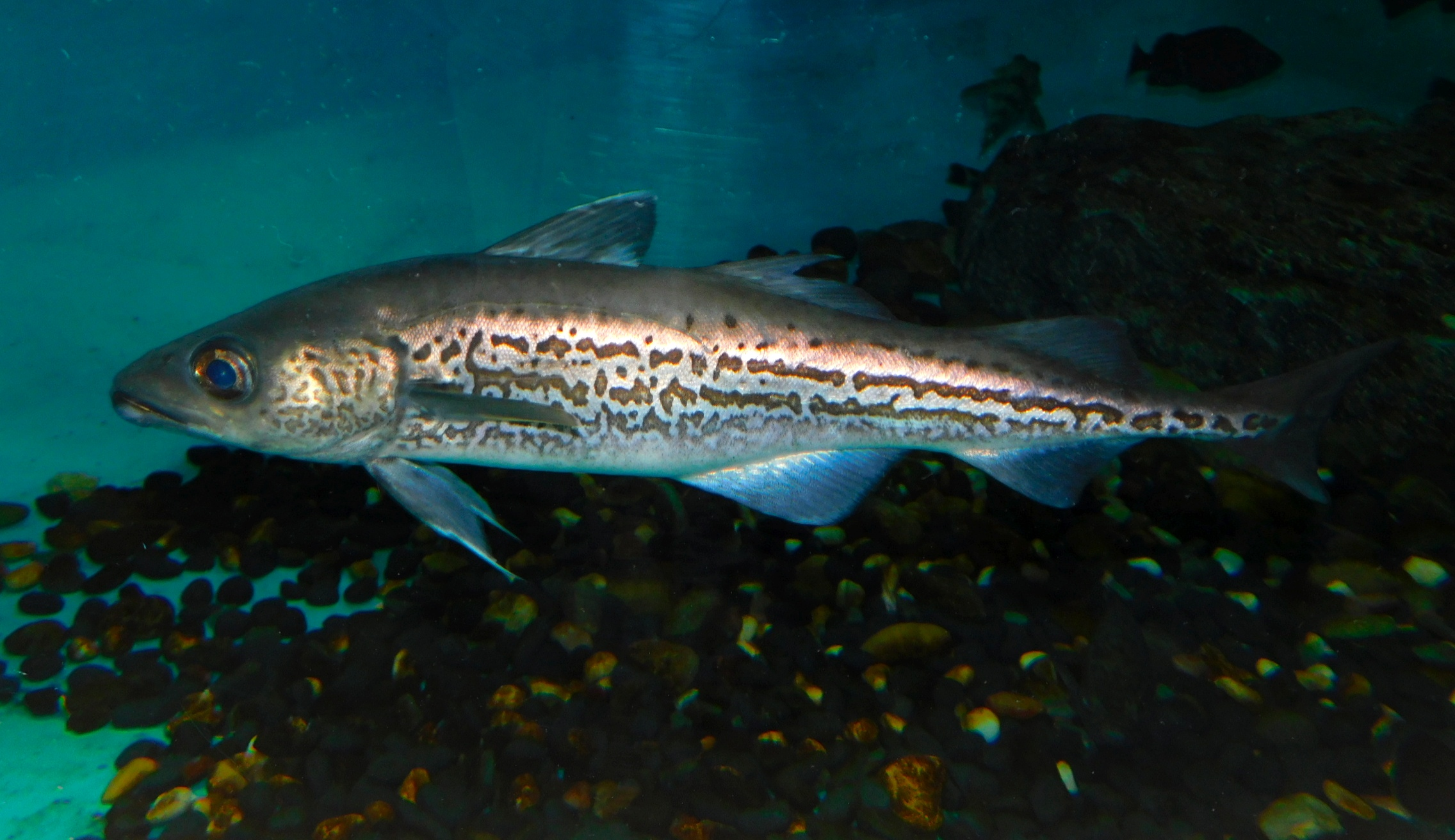 Alaska Pollock (Gadus chalcogrammus) in the Oarai Aquarium.